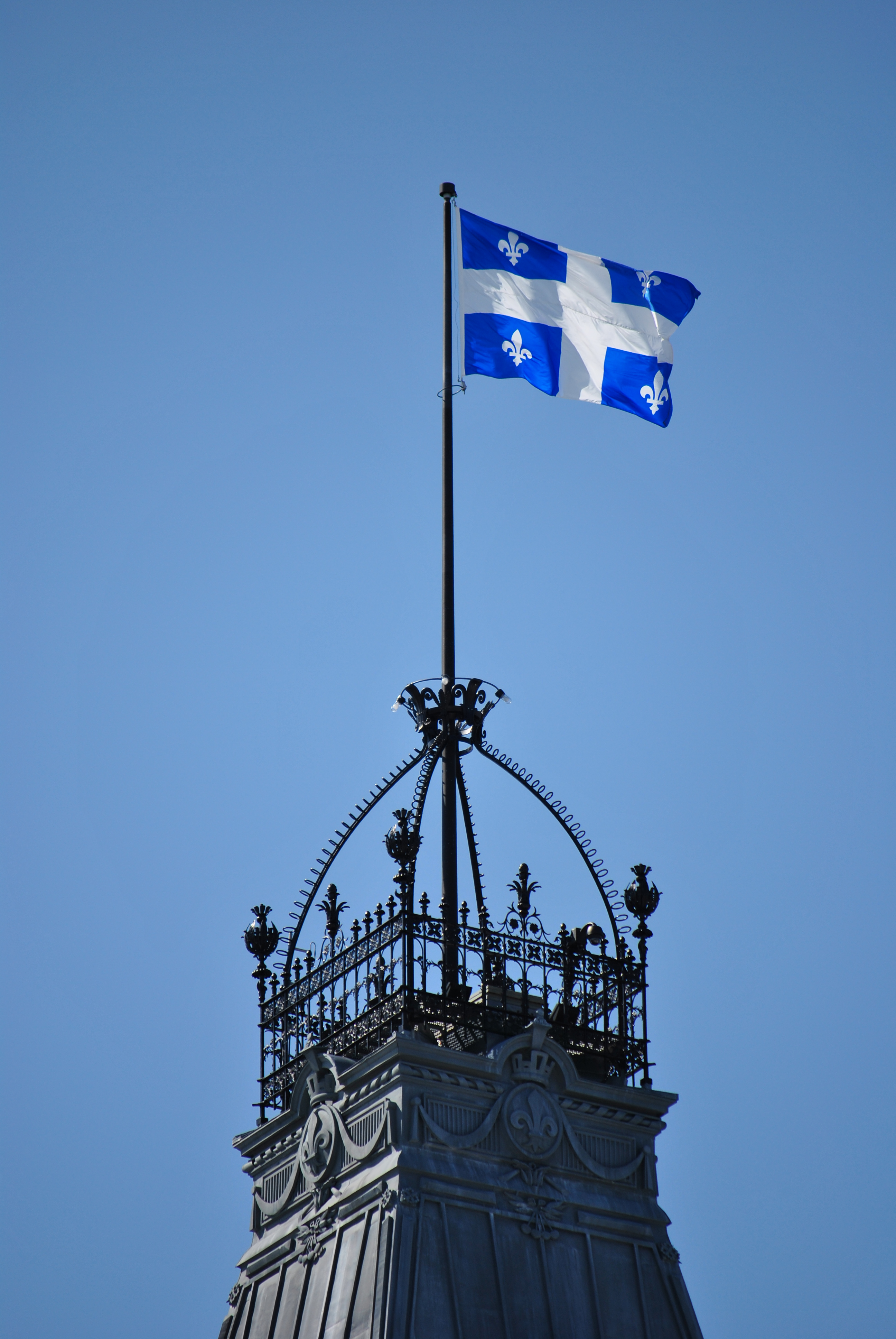 A photo of the flag of the province of Quebec floating over the Parliament Building in Quebec City.